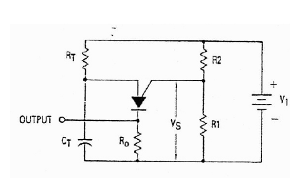 Ejemplo